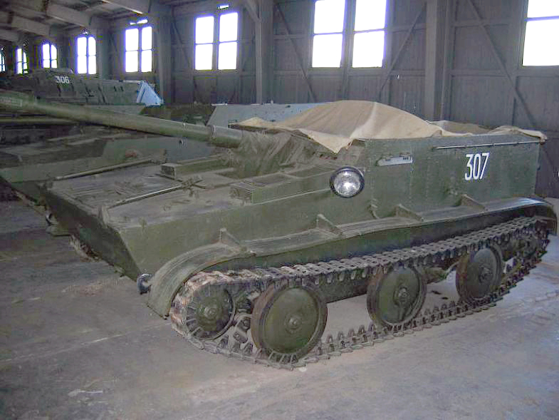 Soviet experimental tank destroyer K-73.